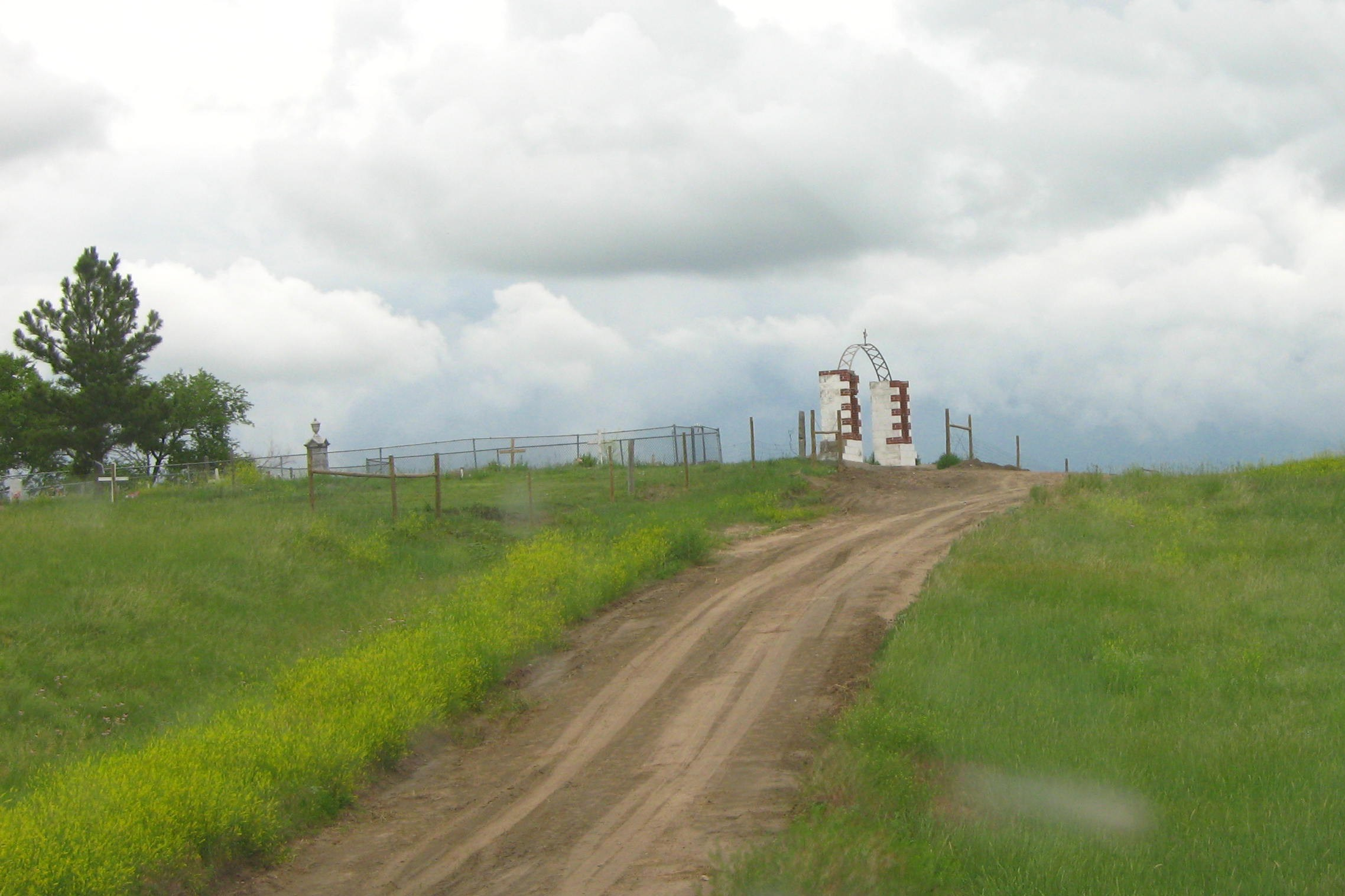 Wounded Knee Battlefield